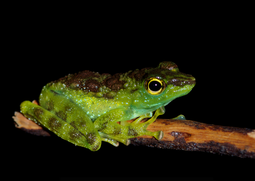 Adult seen along stream in Mt. Kinablu National park